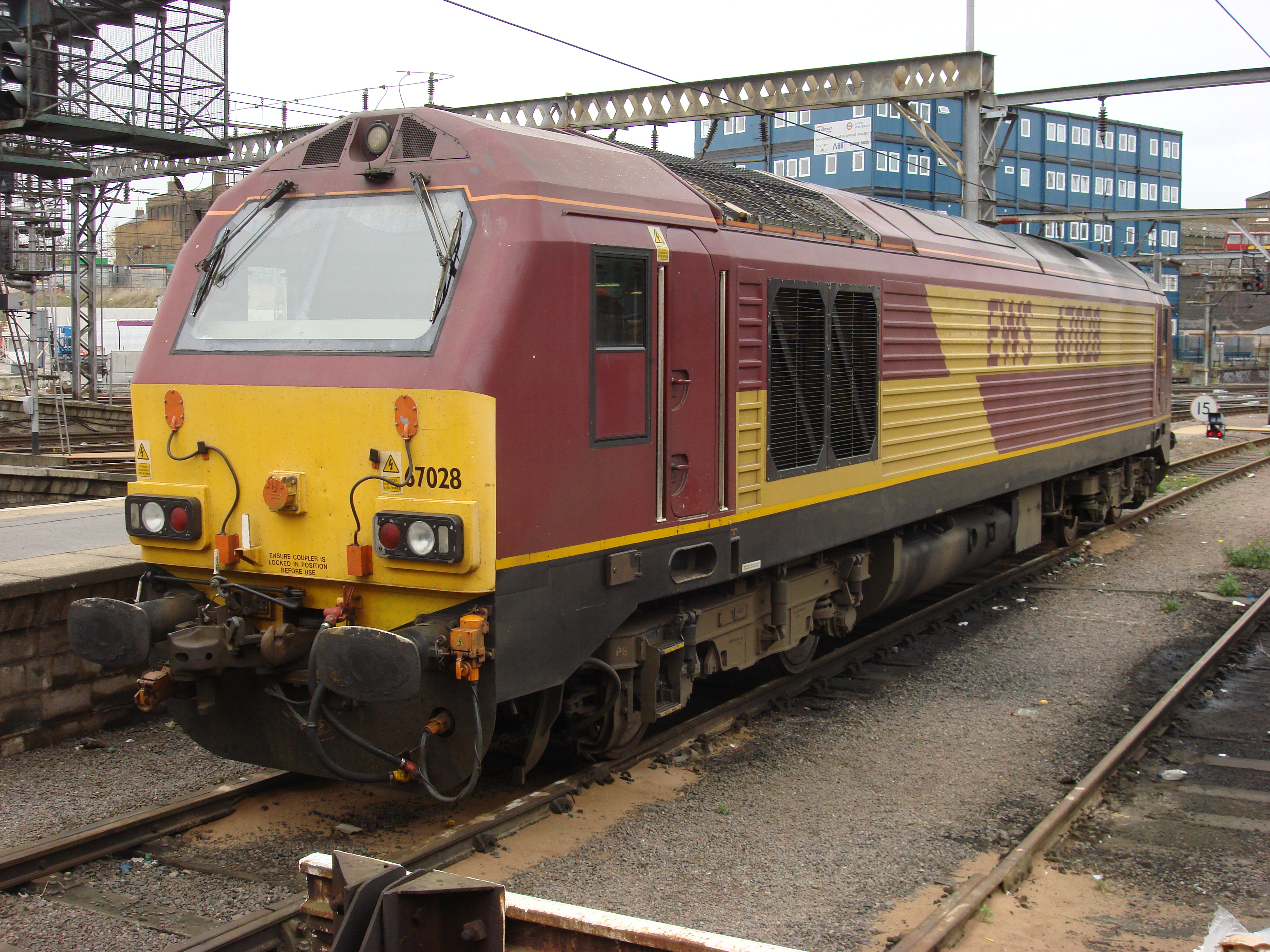 67028 at Kings Cross